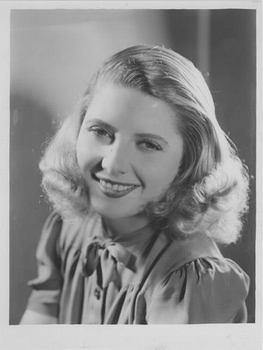 Ana May- actriz